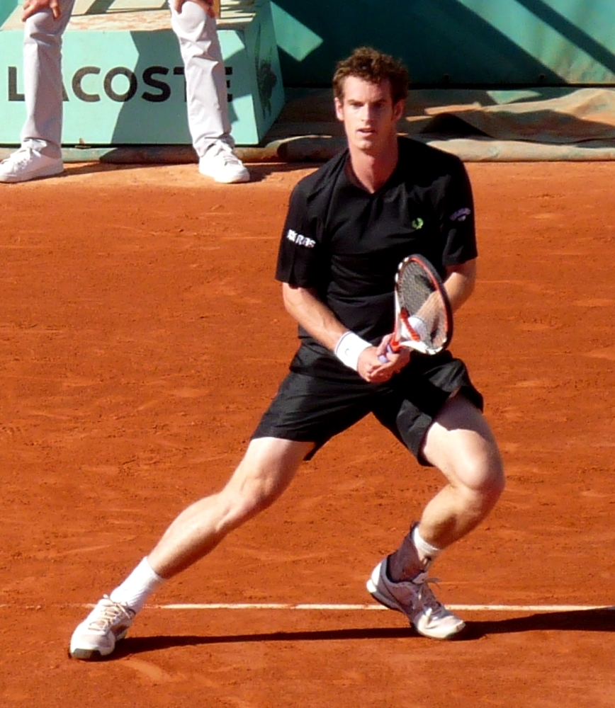 Andy Murray against Janko Tipsarević in the 2009 French Open third round